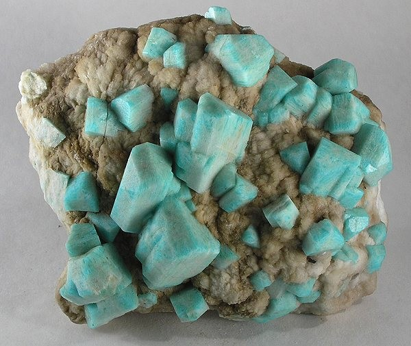 Microcline (Var.: Amazonite), Albite Locality: Kenticha mine, Kenticha pegmatite field, Sidamo-Borana Province, Ethiopia (Locality at ) Size: 16.6 x 14.0 x 8.7 cm. These Ethiopian amazonites have given Teller Peak specimens a real run for their money. The color of the amazonites on this specimen (to 3 cm) is a fabulous robins-egg blue. Their form is text book. But what makes this specimen so special is that the amazonites are embedded in and isolated on a field of colorless orthoclase - so they just really pop out at you! A dazzling large showpiece!